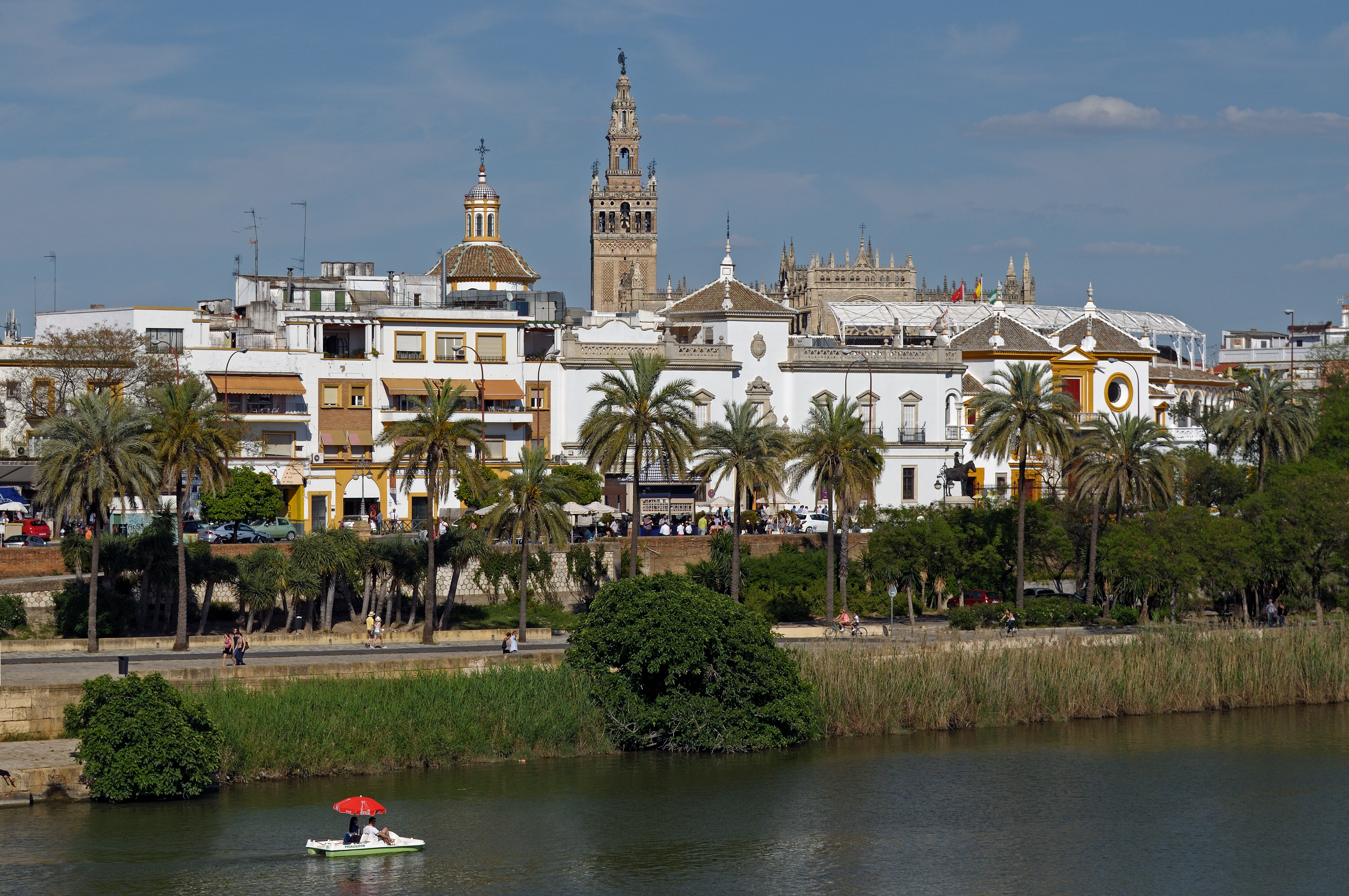 The Guadalquivir embankment in Seville. Paseo Alcalde Marques del Contadero